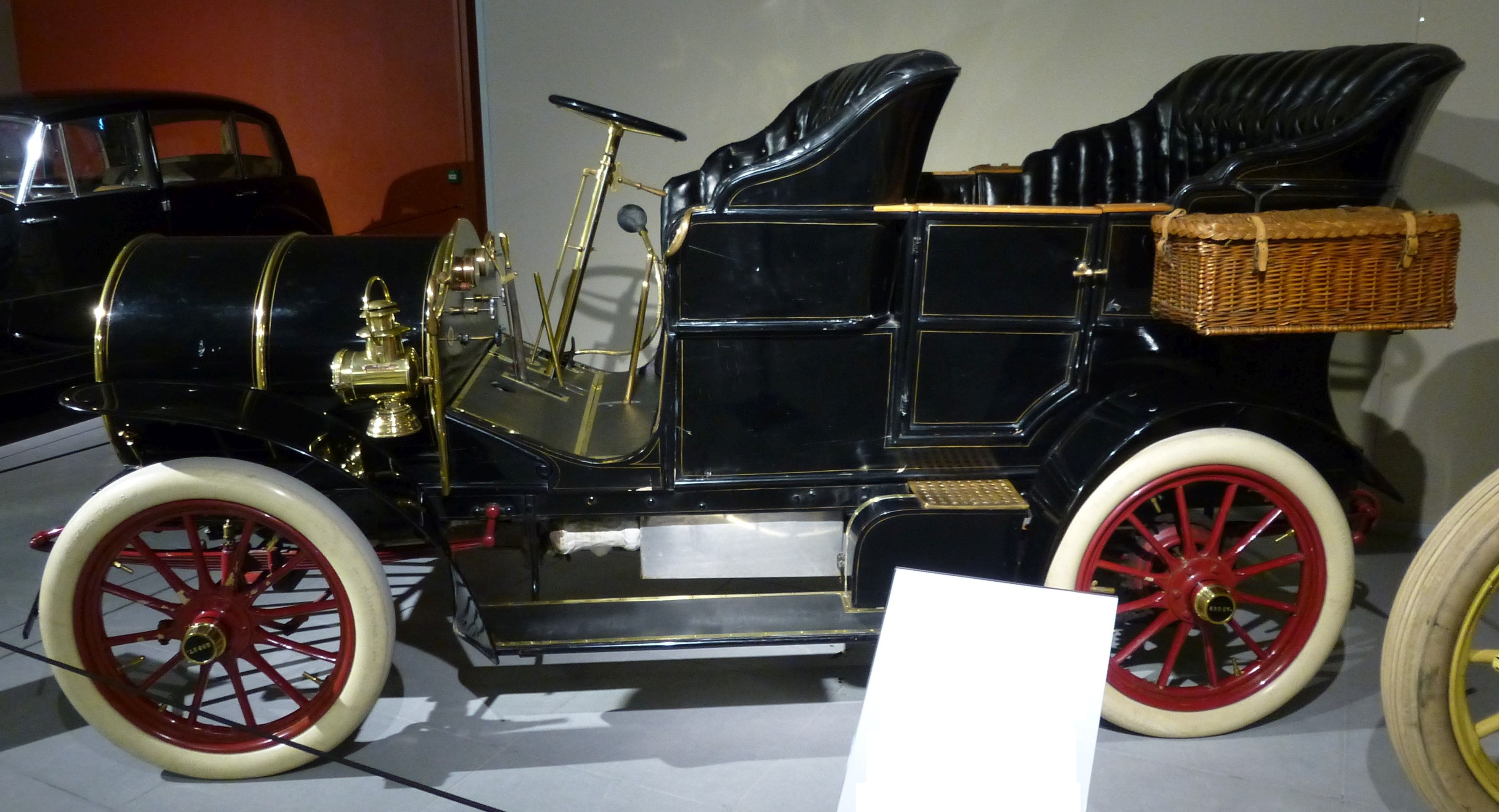 Grout 12 HP 1904